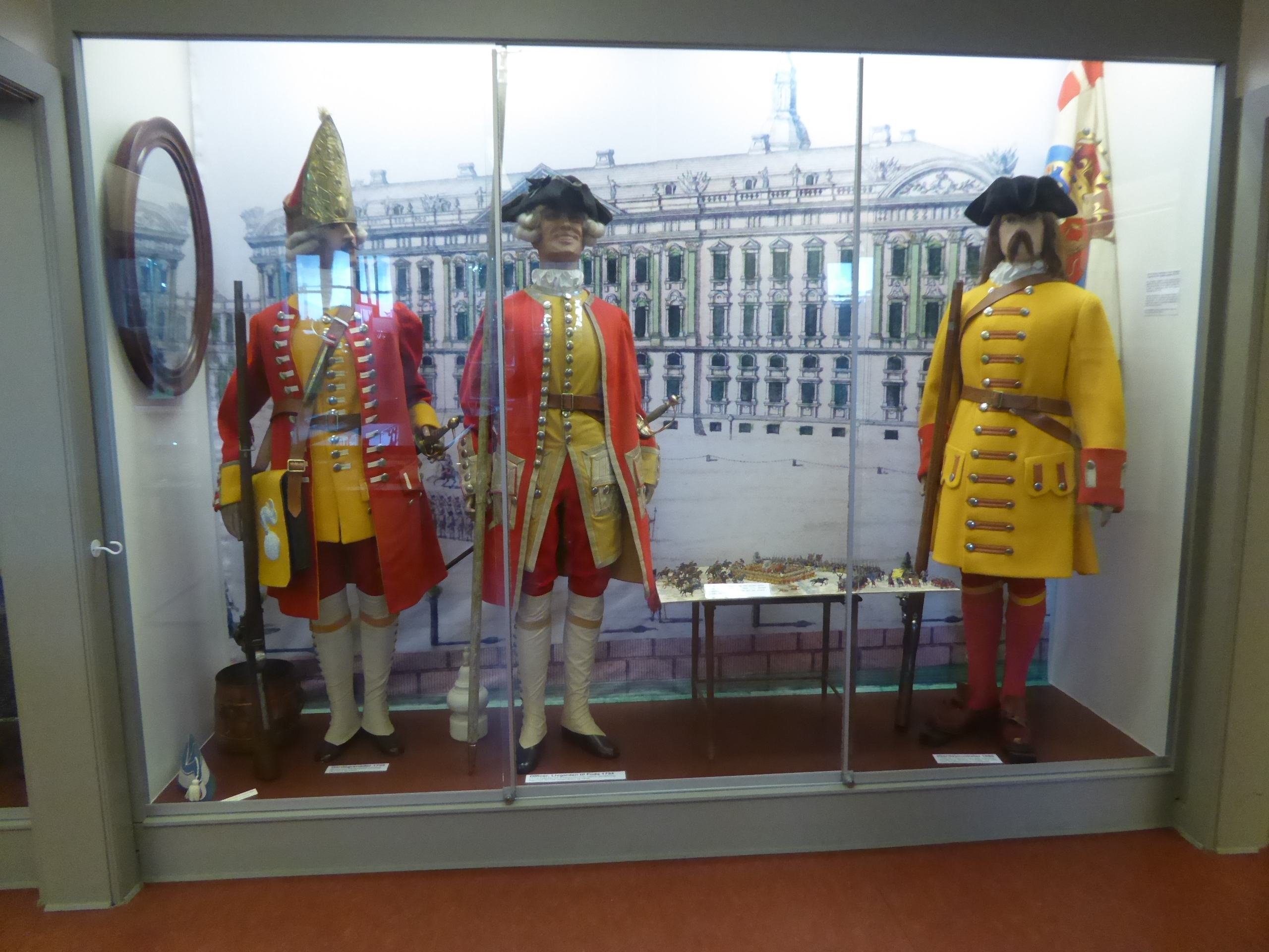 The museum of the Royal Life Guard of Denmark in Copenhagen. Uniforms of the guard from the first part of the 18th century.